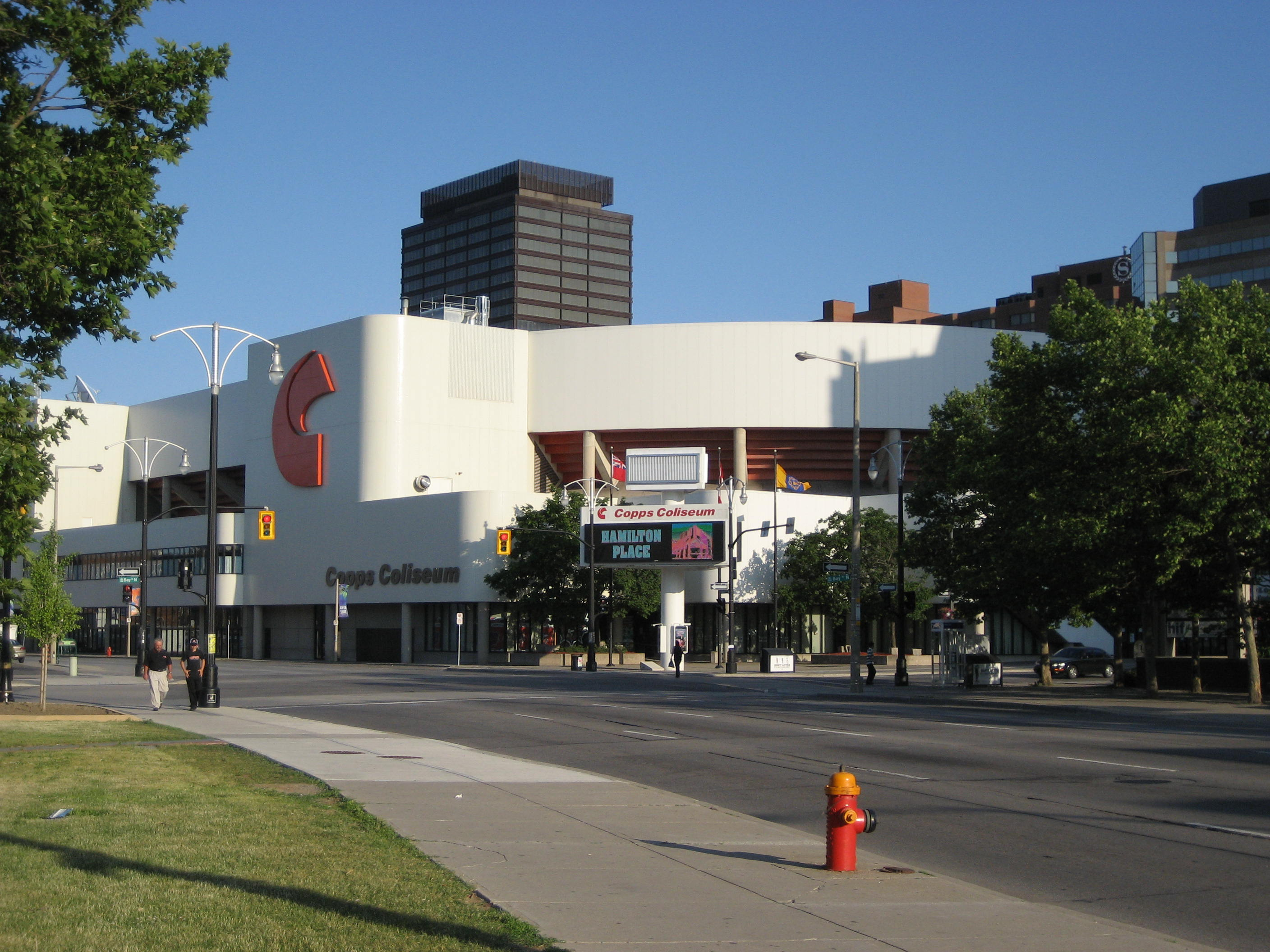 Copps Coliseum, York Boulevard, looking East. Copps Coliseum. Copps Coliseum, looking East on York Boulevard. Copps Coliseum, at York Boulevard. Copps Coliseum in Hamilton was built in 1985 with the hope it would help lure an NHL team to the city.